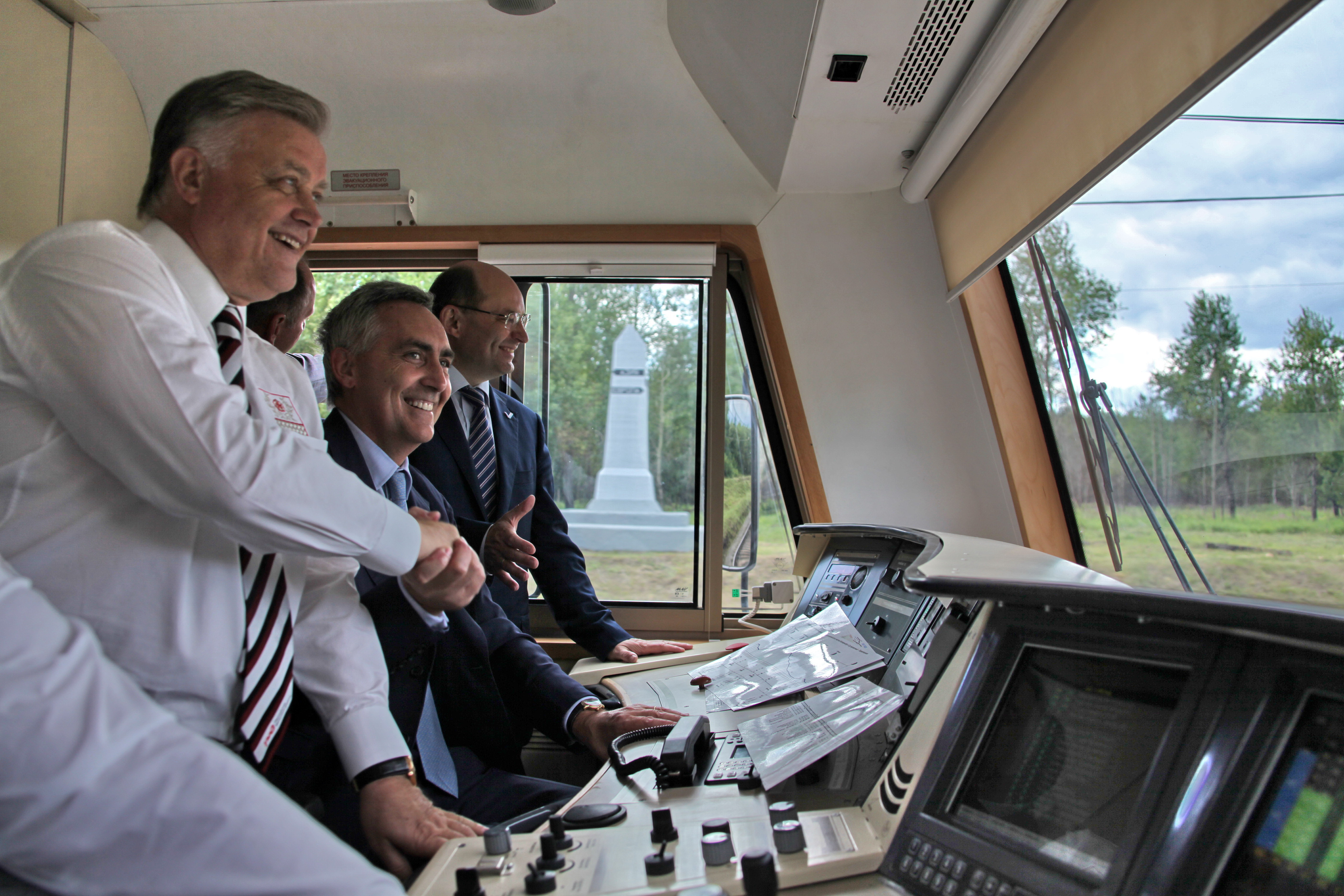 Vladimir Yakunin, Peter Löscher and Alexander Misharin during 2ES10 high-capacity freight locomotive test run, in the background there is Europe-Asia border sign.